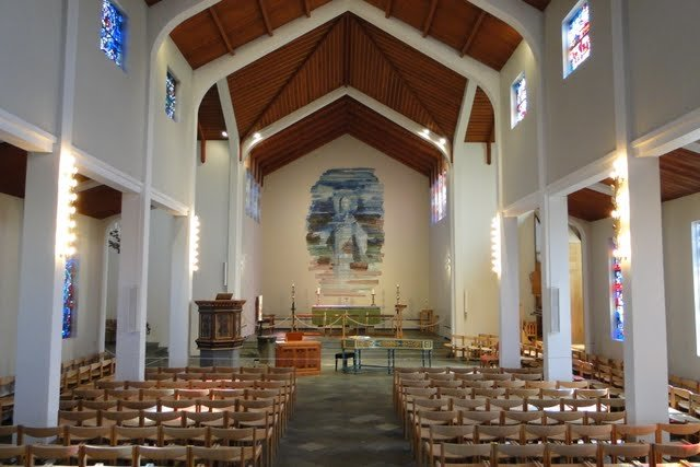 Skalholt, interior of the cathedral